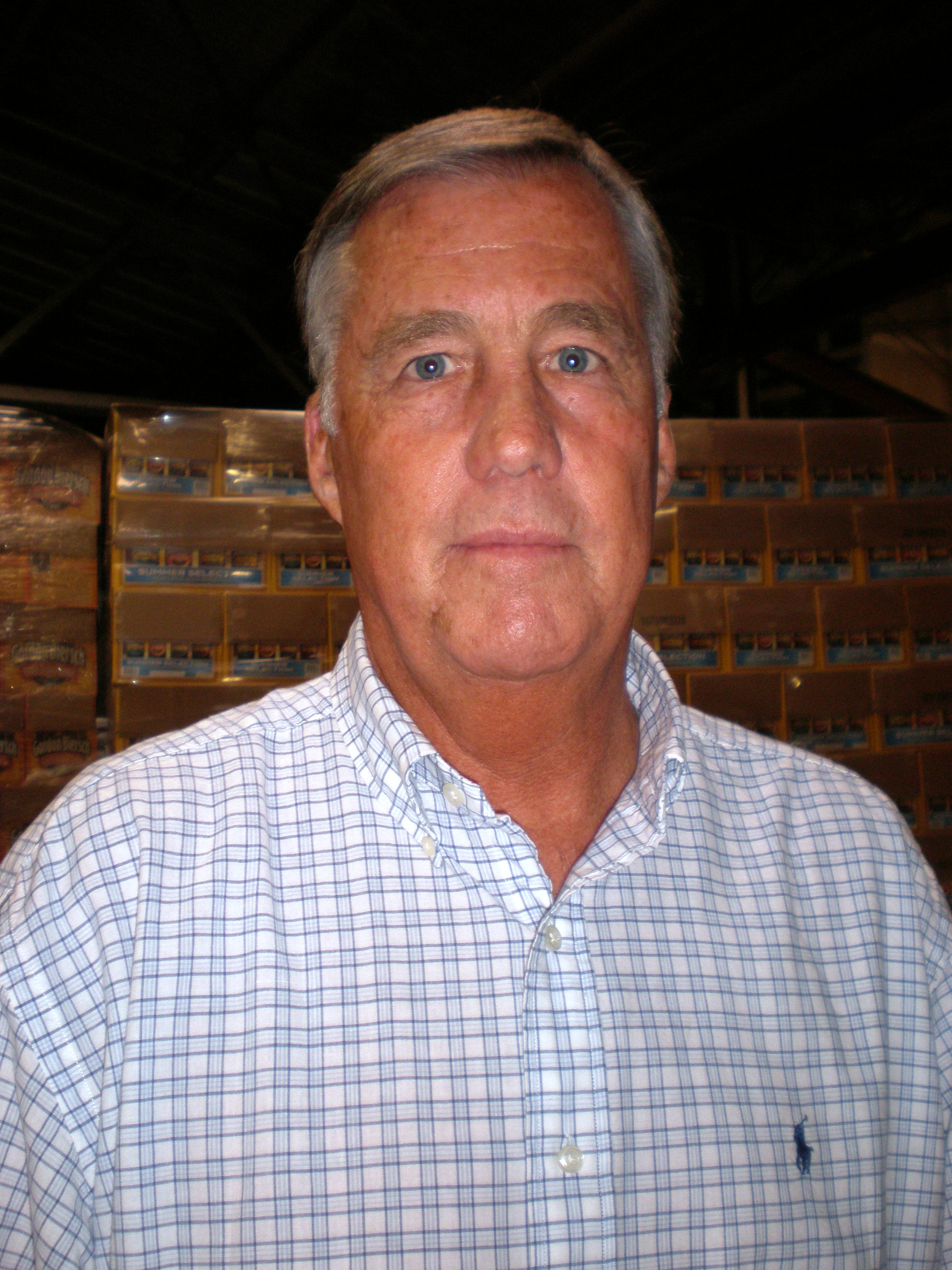 California Golden Bears men's head basketball coach Mike Montgomery at a 2009 Coaches Tour appearance in San Jose, California..